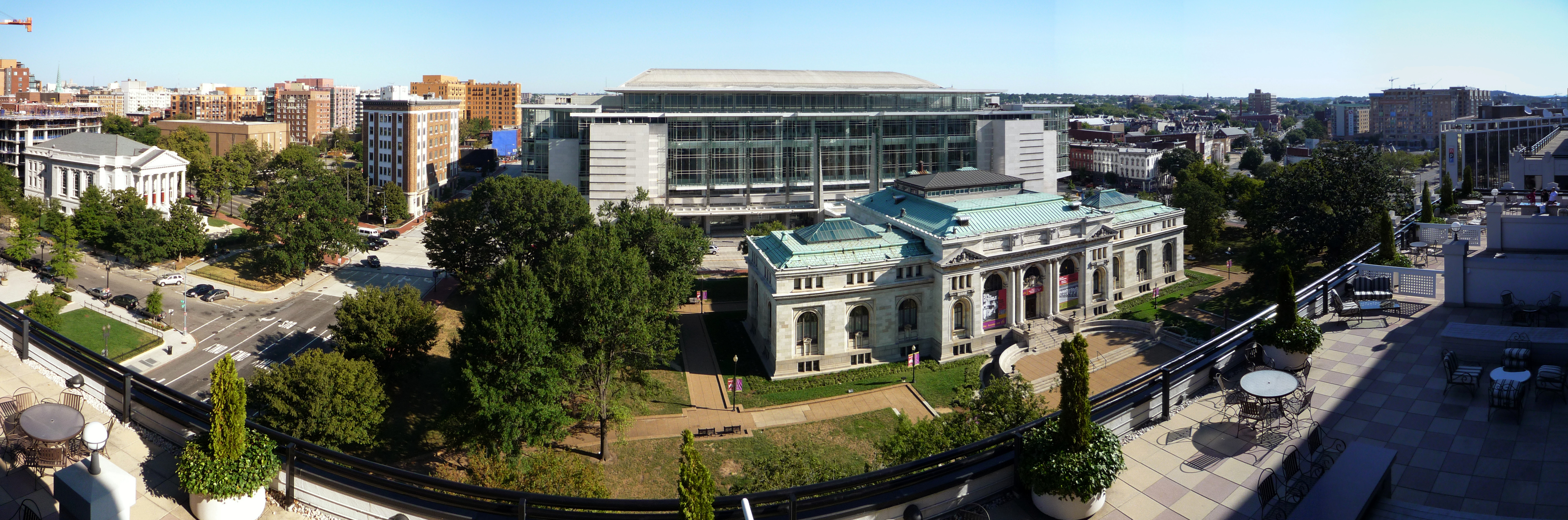 Mount Vernon Square, Washington, D.C.. To the left is Mount Vernon Place United Methodist Church. In the center is a Carnegie library; behind it is the Washington Convention Center; to the right is the recently-razed headquarters of National Public Radio (NPR).